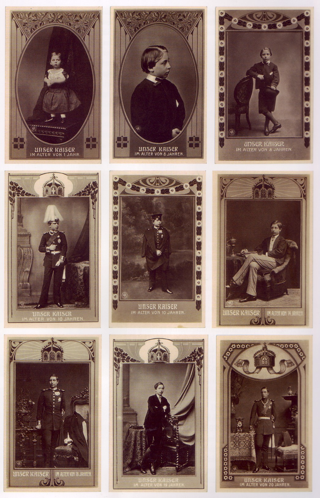 Postcards, produced by the "Neue Photographische Gesellschaft Steglitz" (New Photogaphic Society Berlin-Steglitz).